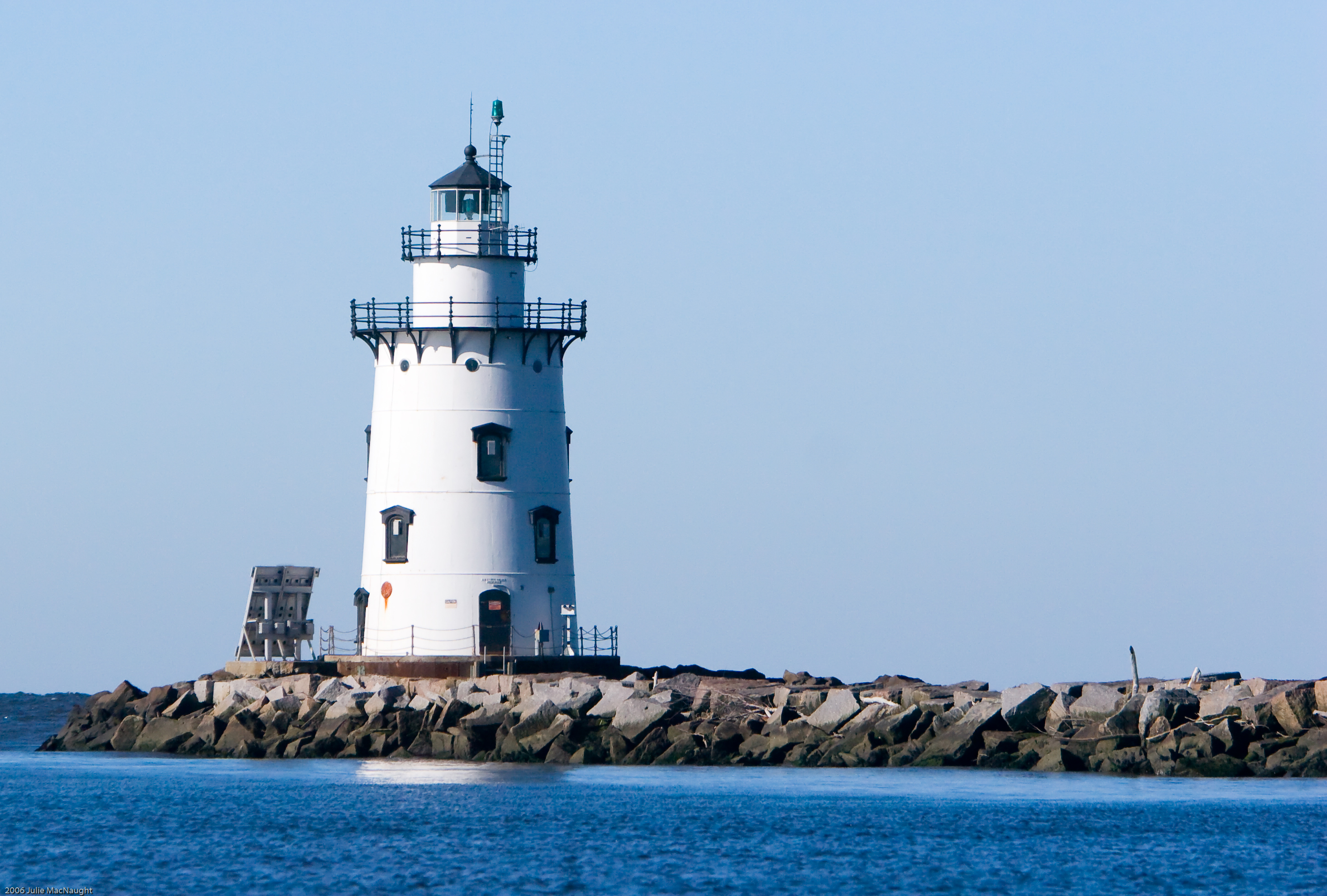 Photograph of Saybrook Breakwater Light, Old Saybrook, CT